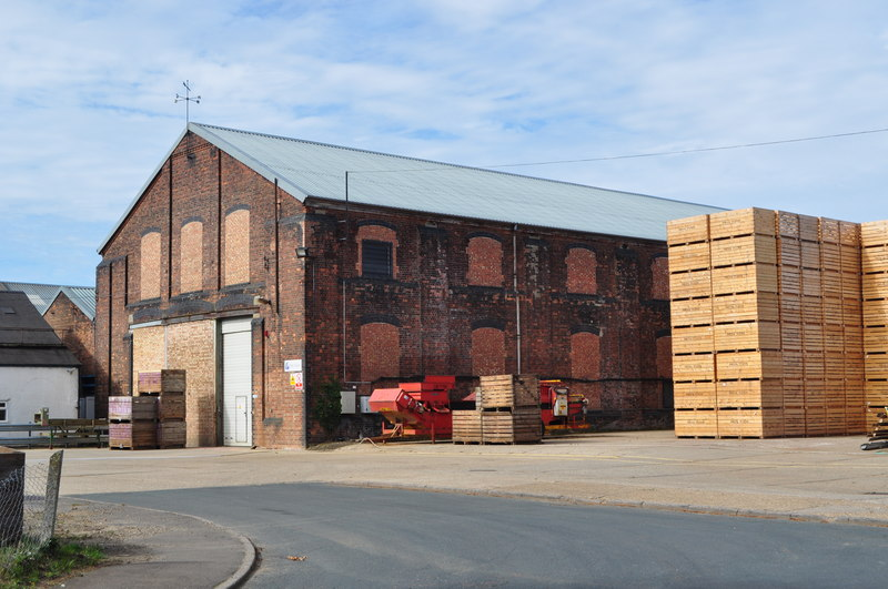 Melton Constable Works, near to Melton Constable, Norfolk, Great Britain. A view of the ex M&GN railway works, built by William Marriot. Since becoming a potato depot. See my article on the works Link and another on the station Link .